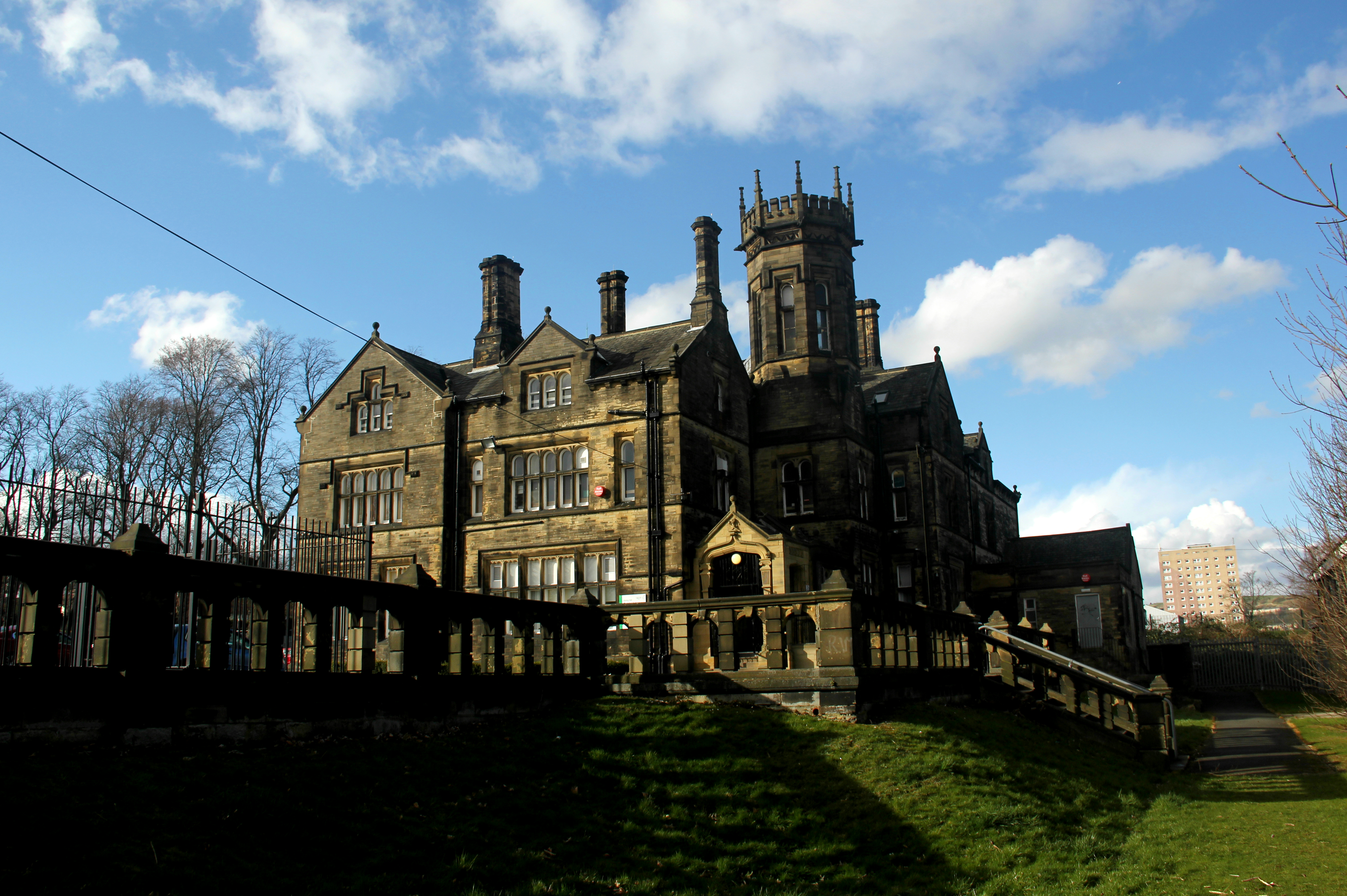 Spring Hall, now known as Spring Hall Mansions, off Huddersfield Road, Halifax, West Yorkshire. It was a rebuild of a 17th century house, and designed in 1871 by William Swinden Barber for Tom Holdsworth. It is owned by Kirklees Council and it houses Calderdale Register Office.